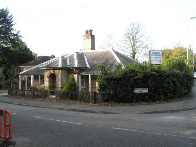 Veterinary Surgeons in Coldeast Way The very most eastern feature in this square.